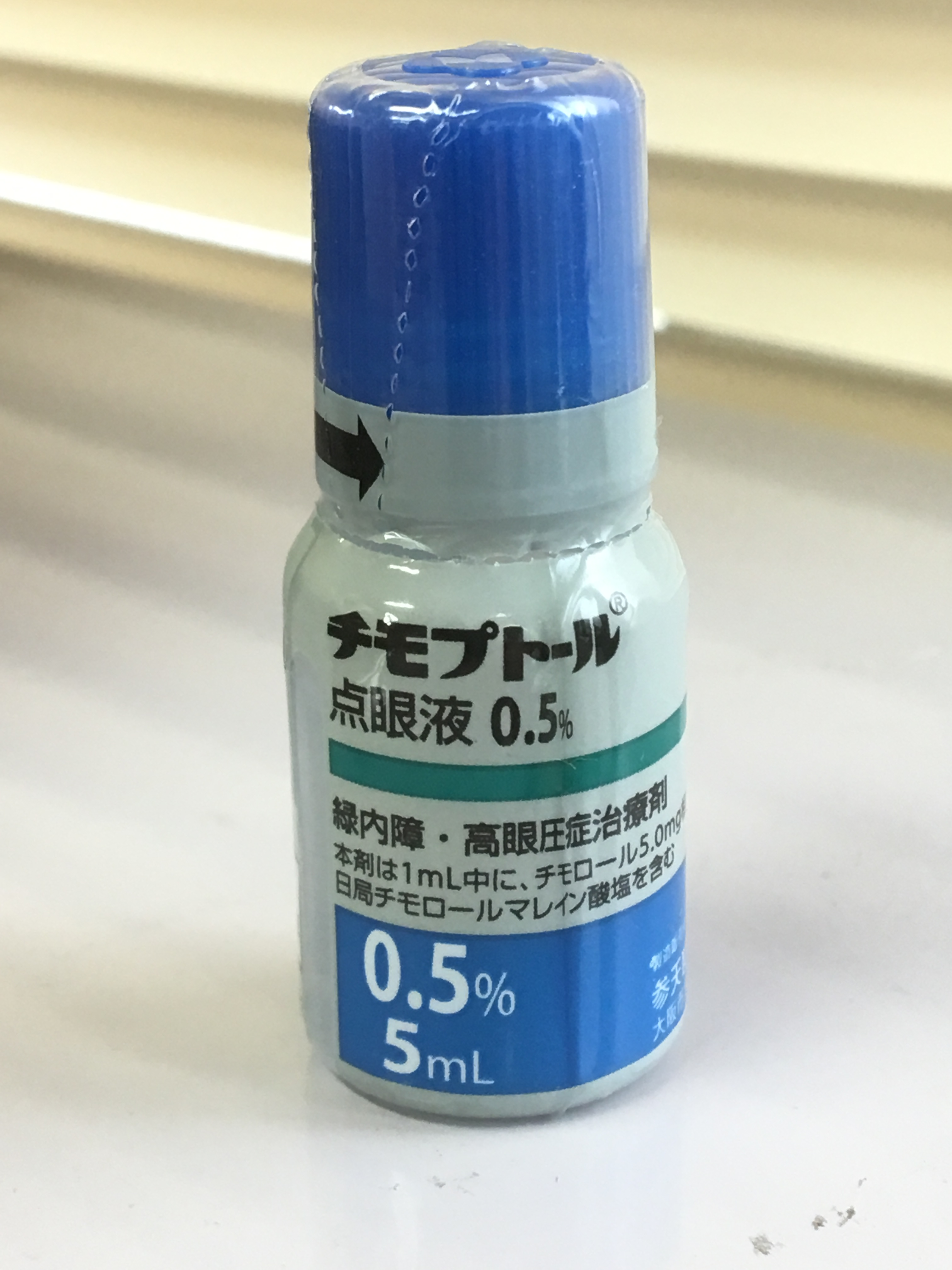 timolol / beta-recepter-blocker